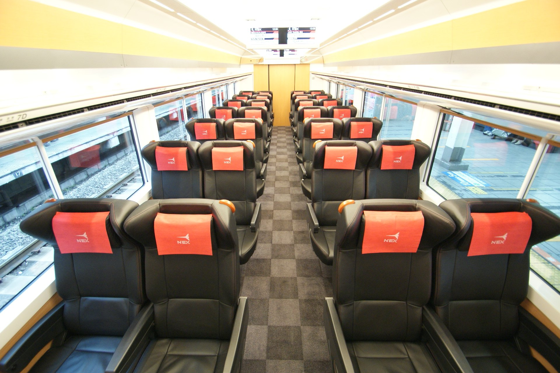 Interior of JR East E259 series "Narita Express" Green-class car